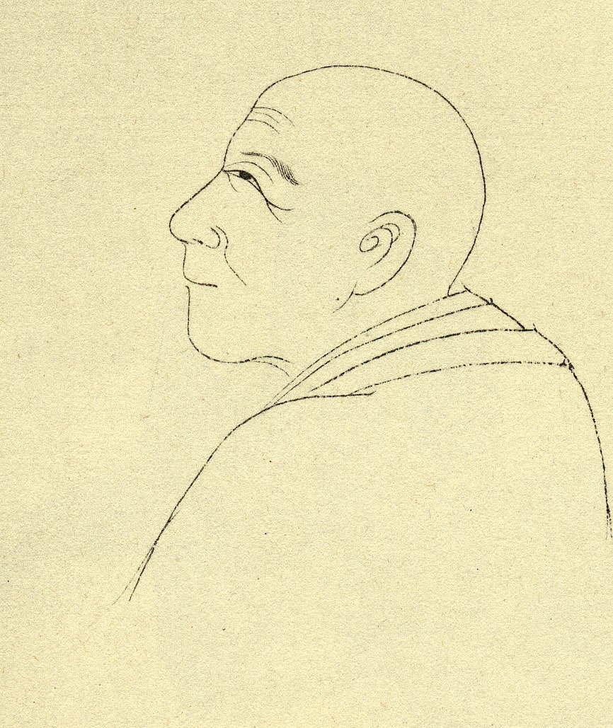 Hattori Ransetsu(服部嵐雪) was a japanese haiku poet in Edo period.